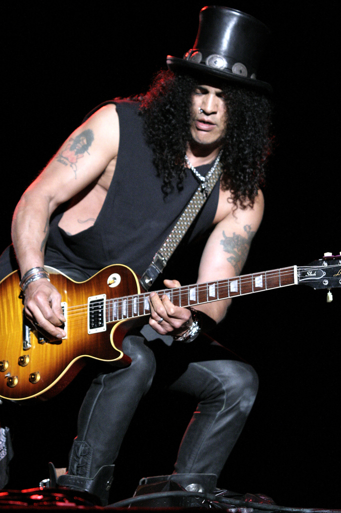 Slash Solo Carrier (with Myles Kennedy)